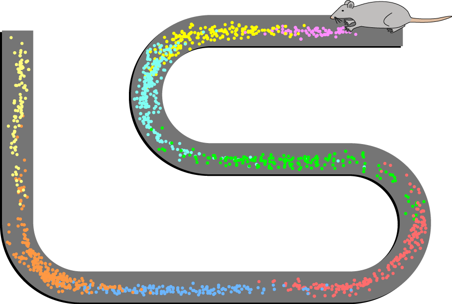 An example of the spiking activity of neurons in the CA1 subregion of the hippocampus, commonly referred to as place cells.